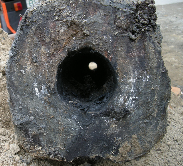 Wooden Waterpipe from frontside